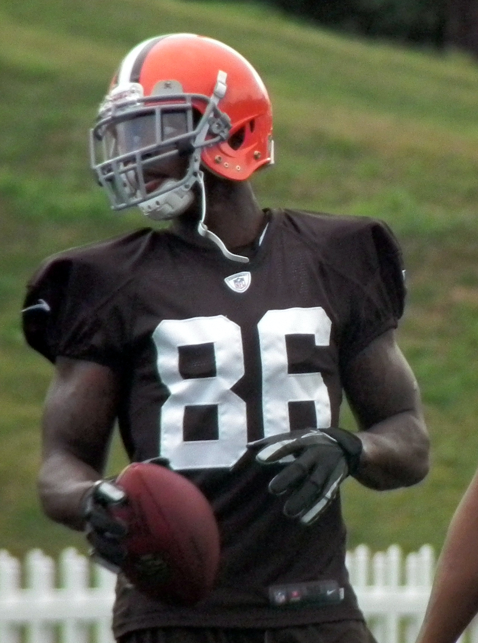 Josh Gordon at Browns training camp